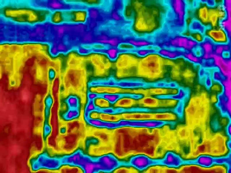 Vertical, kite aerial thermogram of a partially dried out former brickworks kiln site in Armadale, West Lothian, following a shower of rain. The image is a still from this video: taken by Drs John and Cade Wells. (